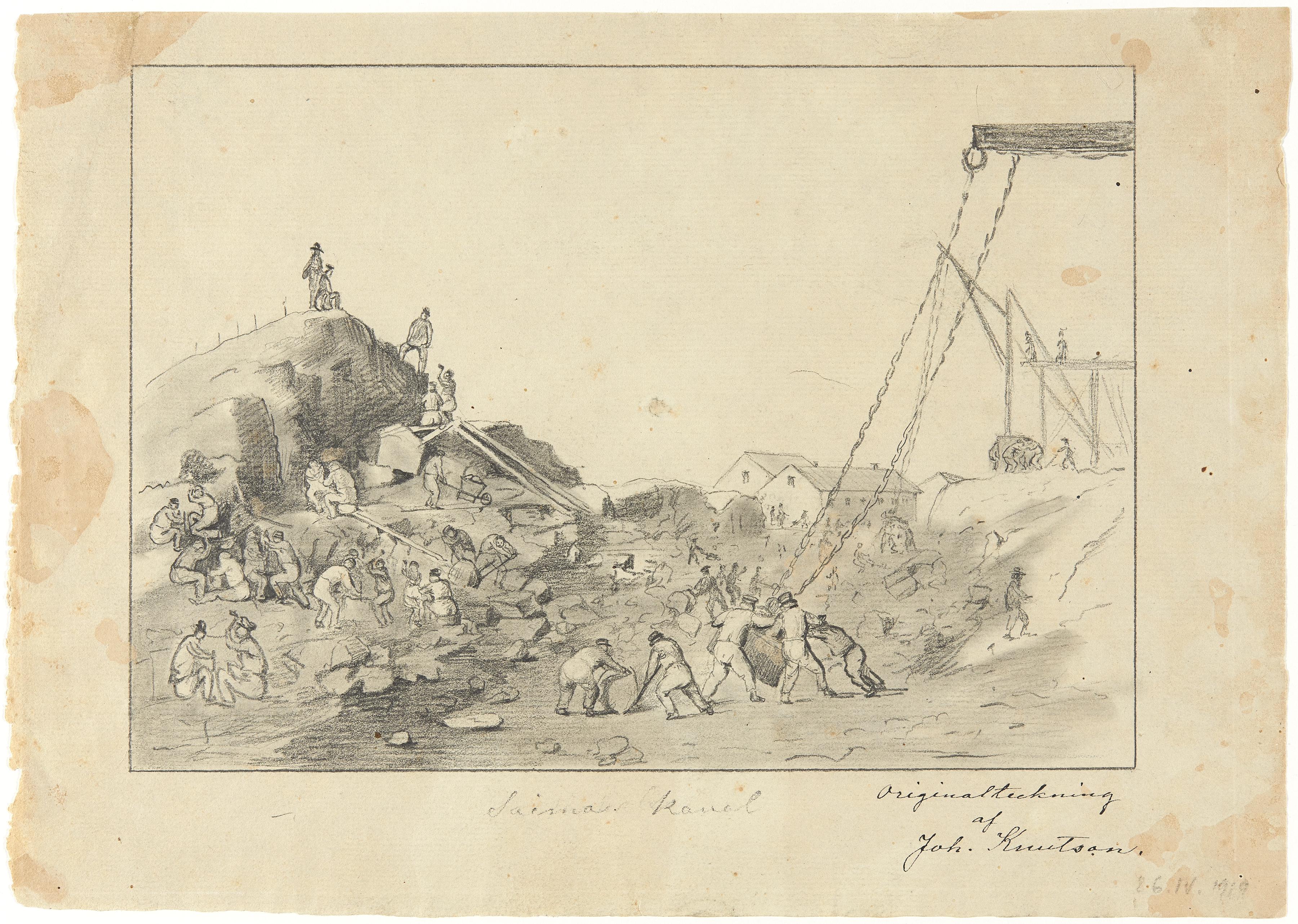 The construction of the Saimaa Canal. Drawing by Johan Knutson.